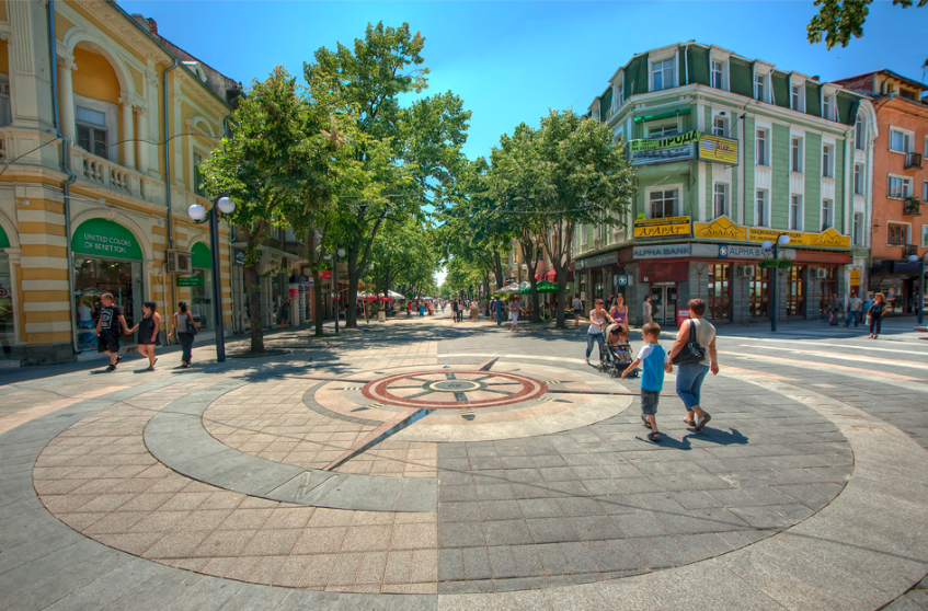 Downtown Burgas